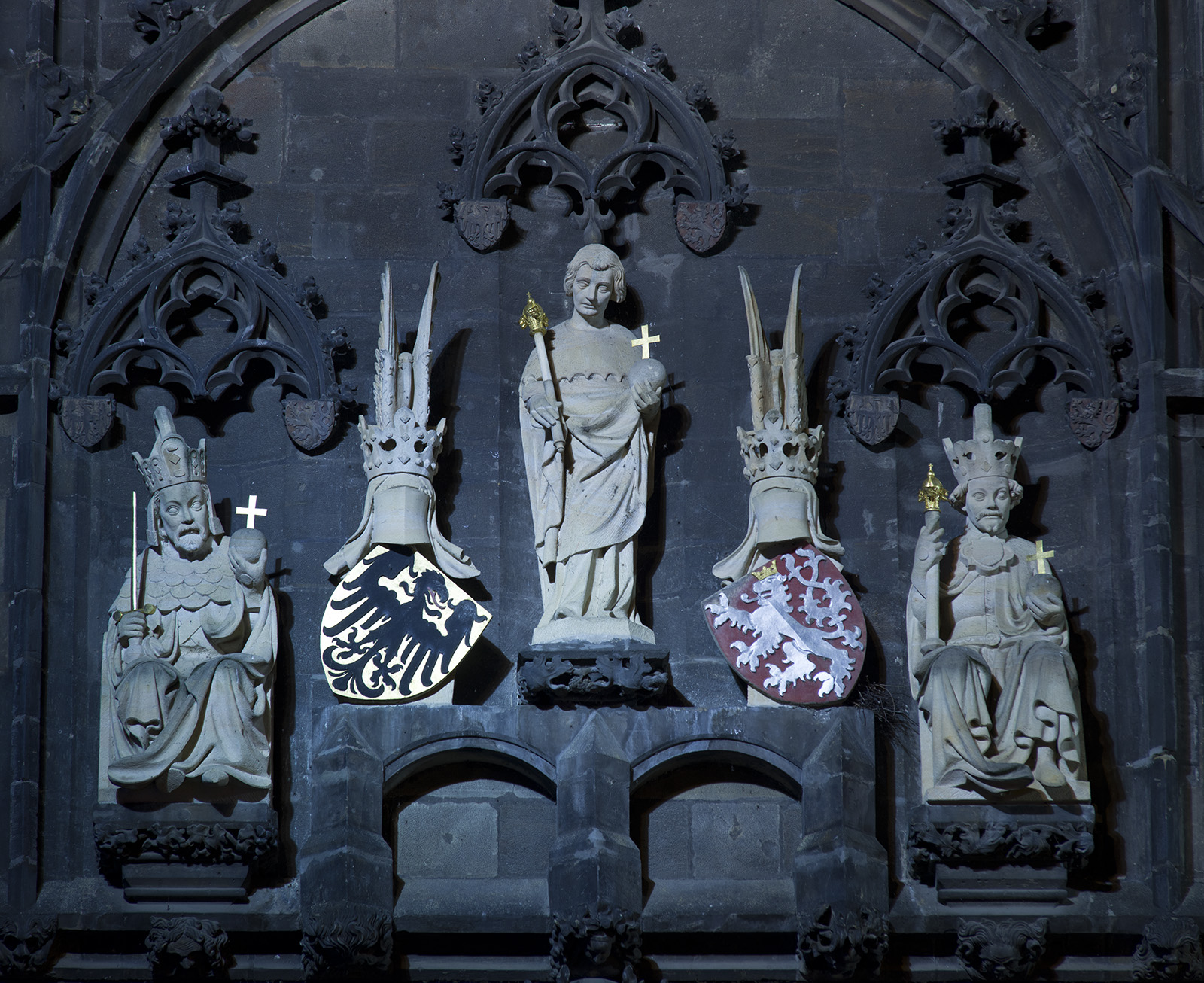 Old Town Bridge Tower